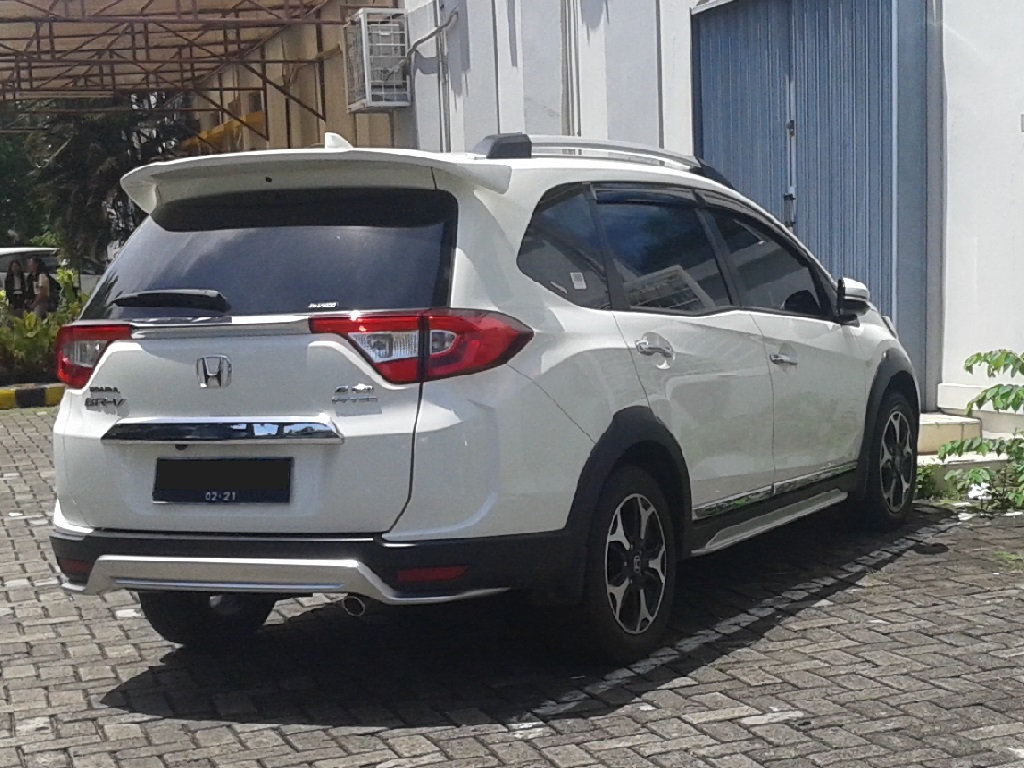 2016 Honda BR-V 1.5 E shown in Taffeta White, photographed in Jakarta, Indonesia.